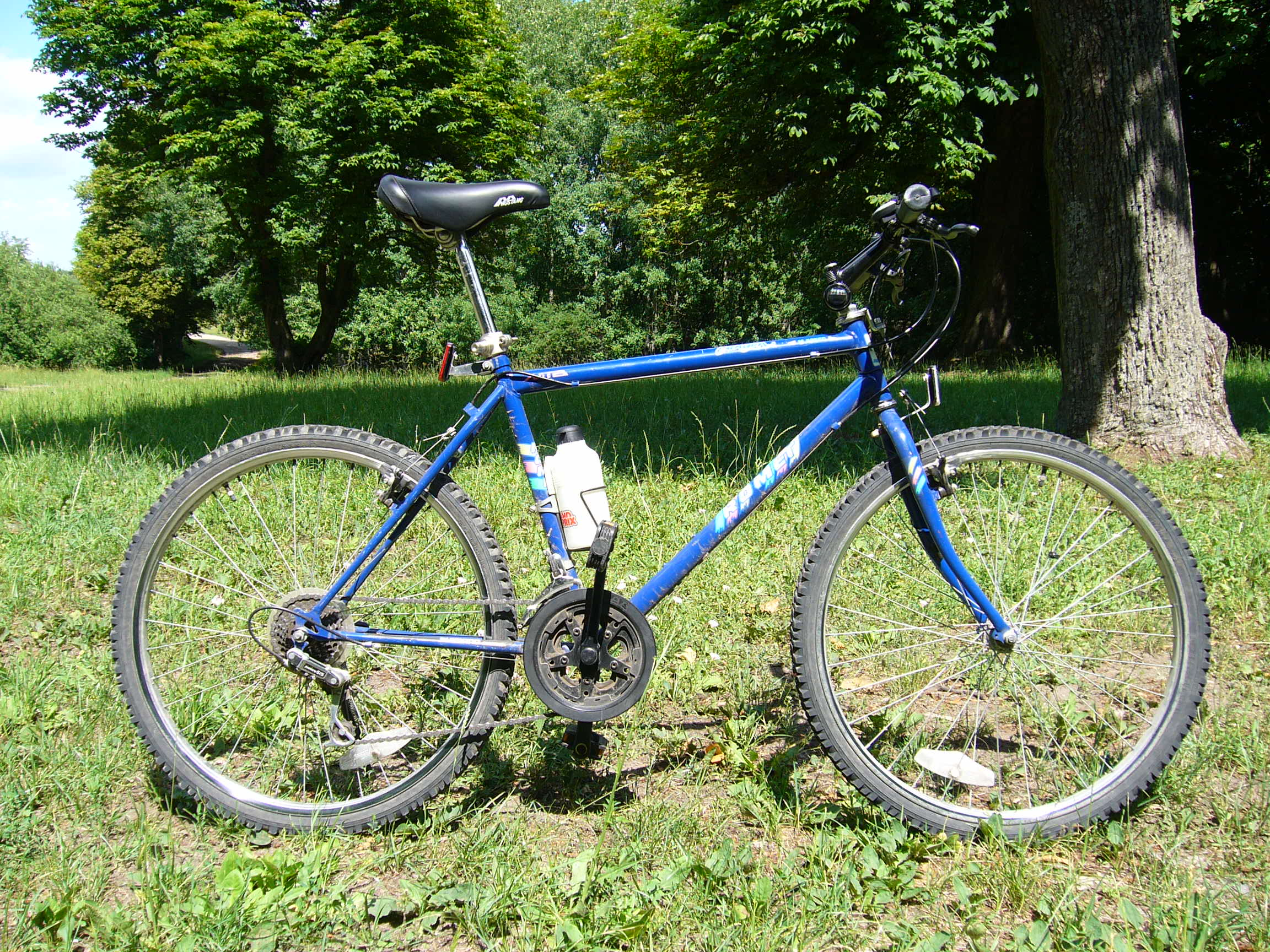 Polish Romet Canyon bicycle